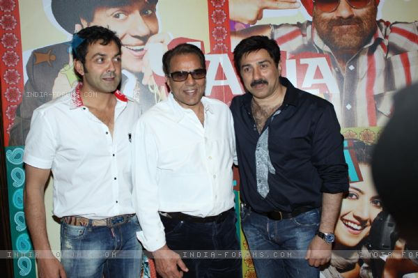 dharmendral